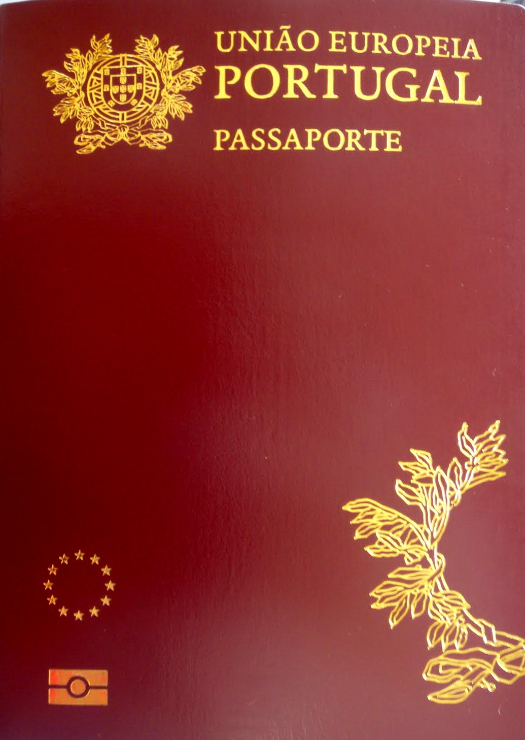 Front cover of a Portuguese biometric passport